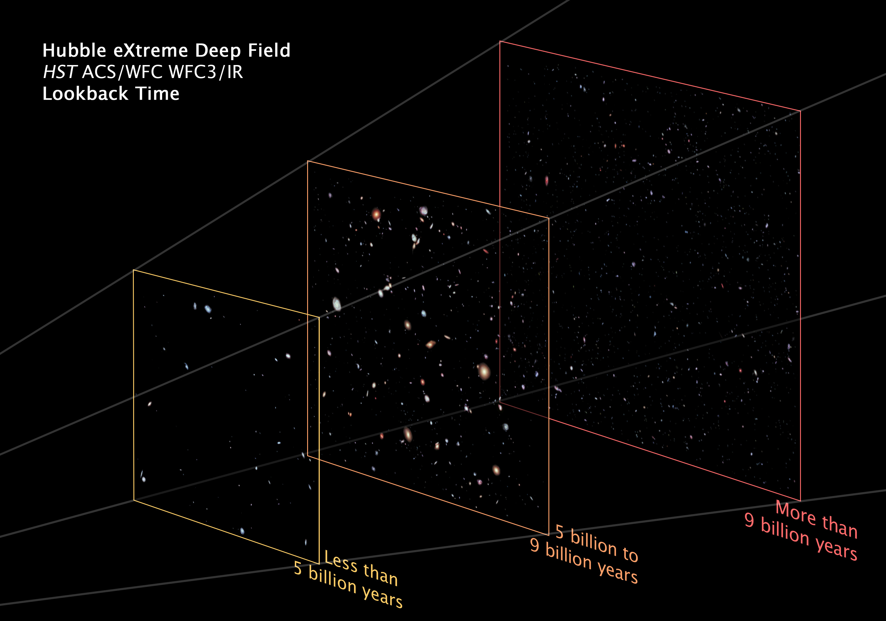 This illustration separates the XDF into three planes showing foreground, background, and very far background galaxies. These divisions reflect different epochs in the evolving universe. Fully mature galaxies are in the foreground plane that shows galaxies as they looked fewer than 5 billion years ago. The universe is rich in evolving, nearly mature galaxies from 5 to 9 billion years ago. Beyond 9 billion years the universe is awash in compact galaxies and proto-galaxies, blazing with young stars.